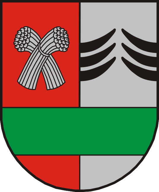 Coat of arms of Šakiai city